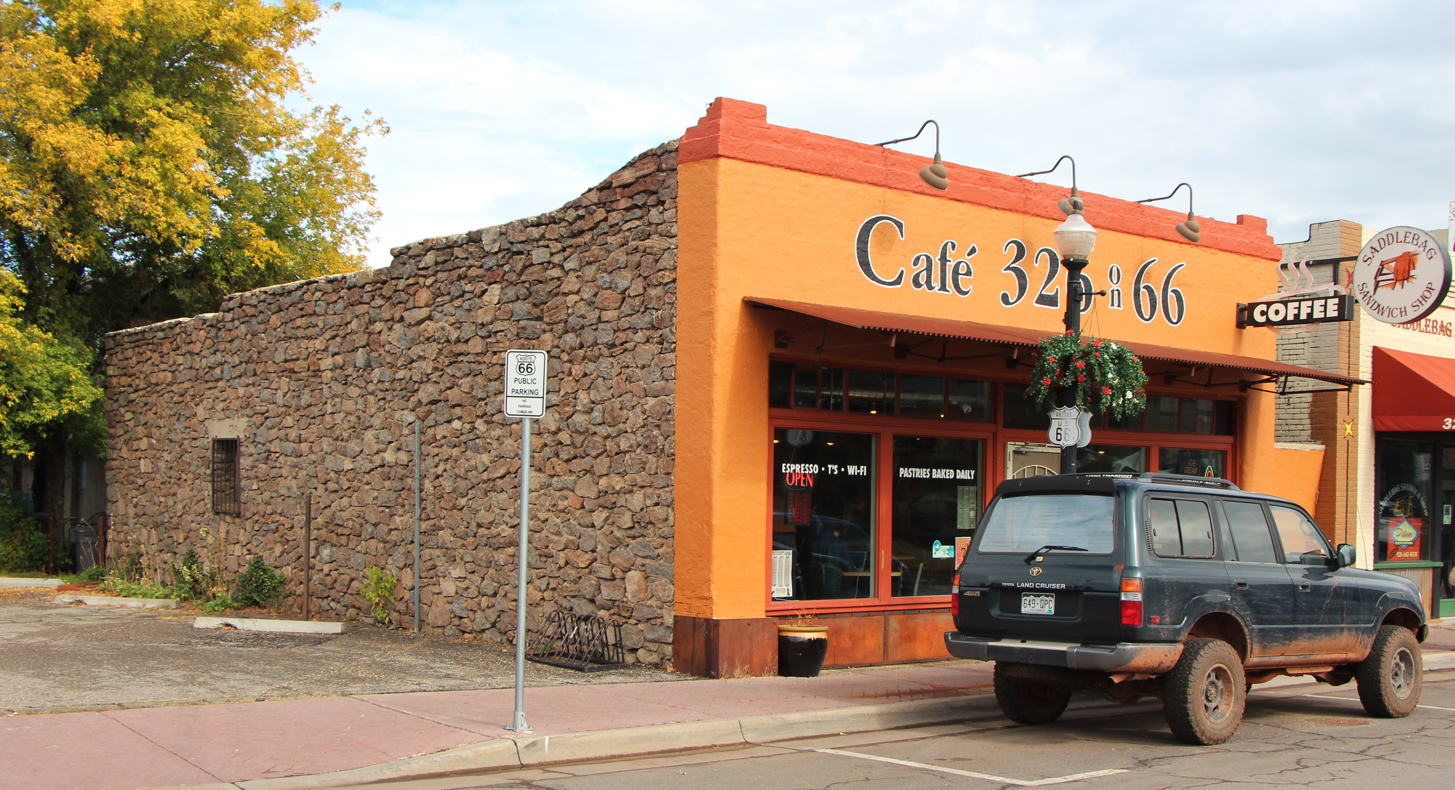 Rock Building, 326 W. Route 66, Williams, AZ